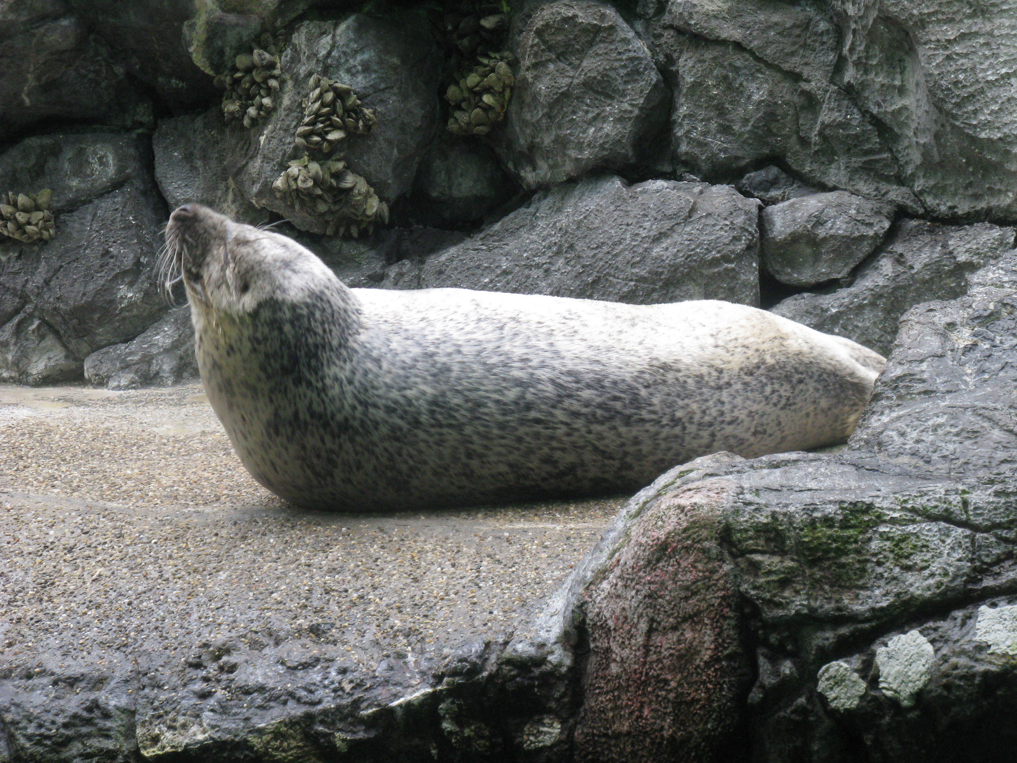 Scientific name Phoca largha